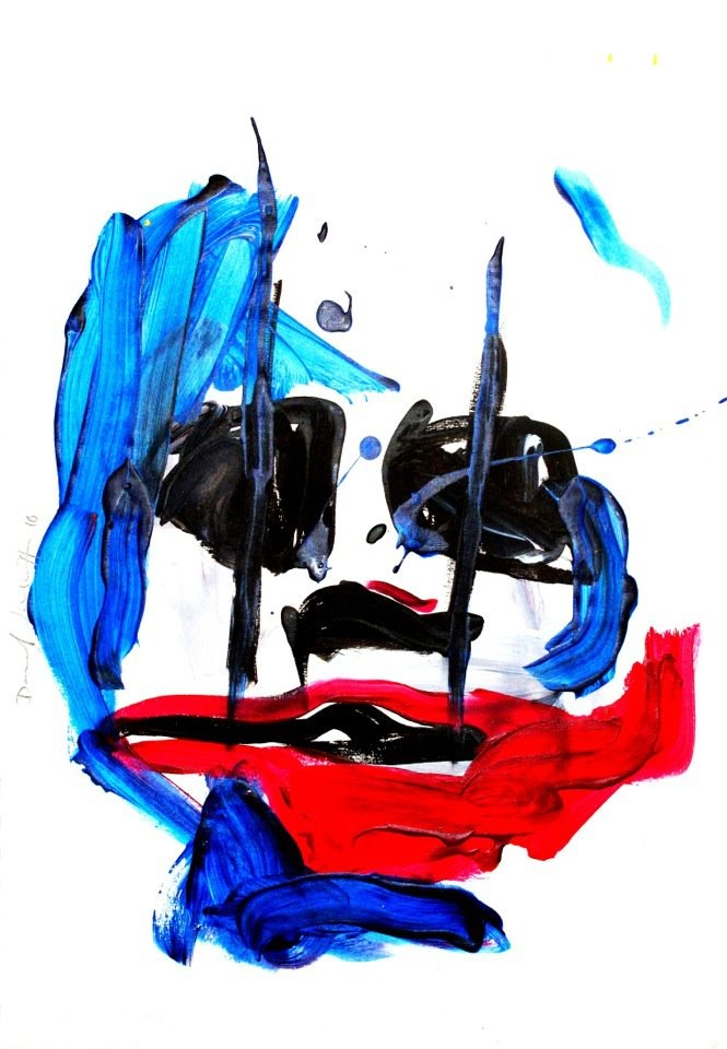 The Joker by Daniel Jouseff